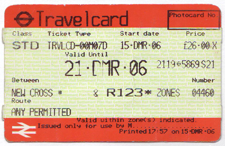 scan of Weekly Travelcard - Transport for London